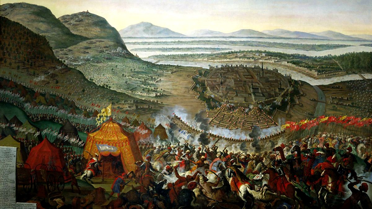 Siege of Vienna in 1529 – stemming the Islamic inperialist tide